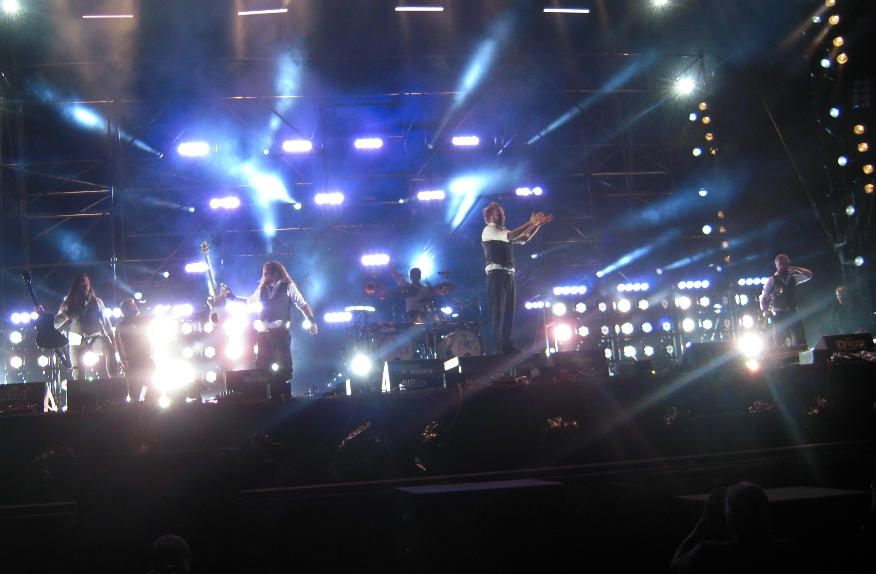 Location: Wacken Open Air Festival 2012 (Wacken, Schleswig-Holstein)